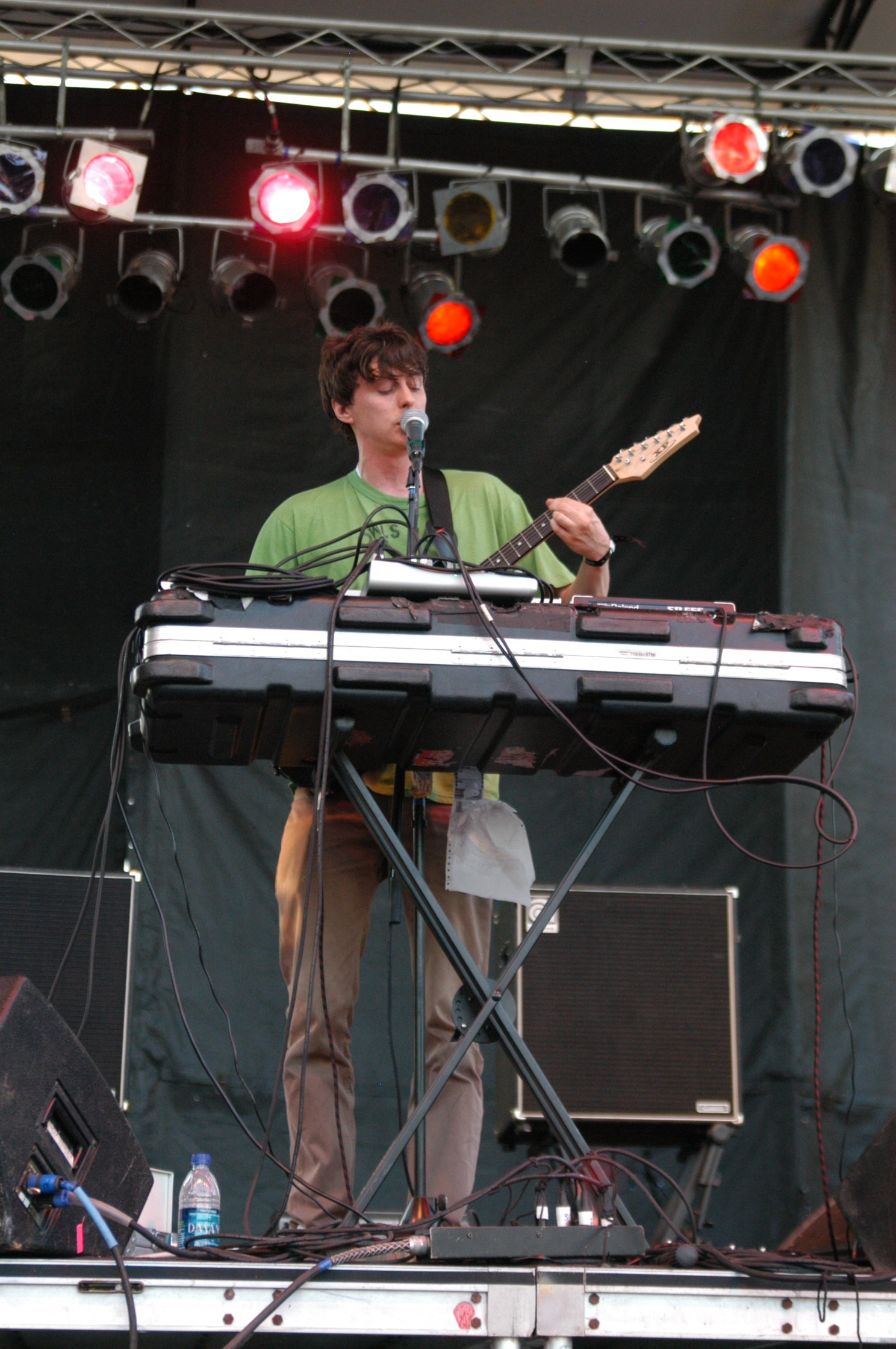 Panda Bear at the Pitchfork Music Festival 2010